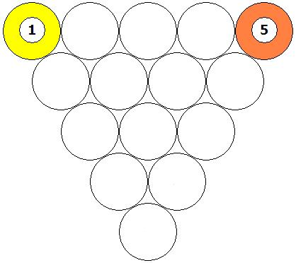 This is a sketch work I made on computer.